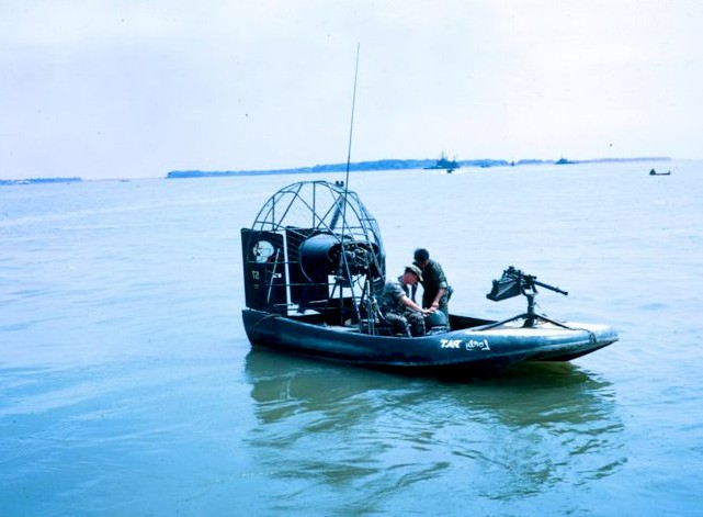 A US Army Hurricane Aircat airboat on the Mekong River in Vietnam